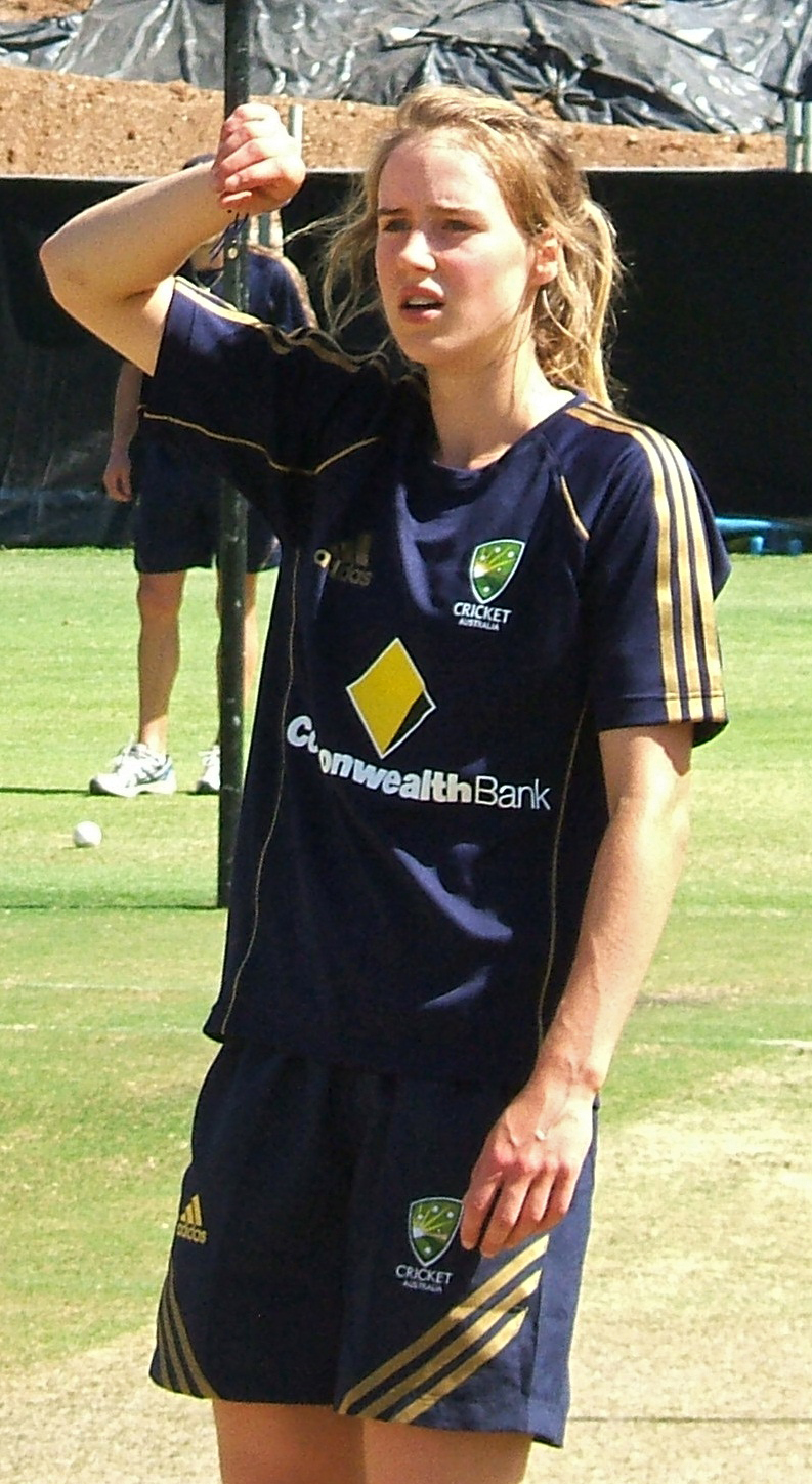 Named person engaging in named action at Adelaide Oval nets/training ground